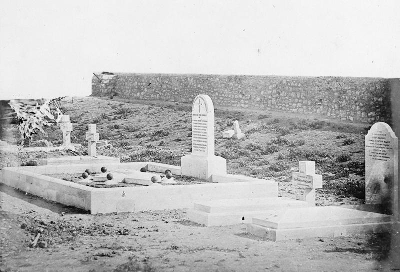 Crimean War 1854-56 Graves of officers from the Guards regiments who fell at the Battle of Inkermann, including Lt.Col.James Hunter Blair MP, Scots Fusilier Guards.